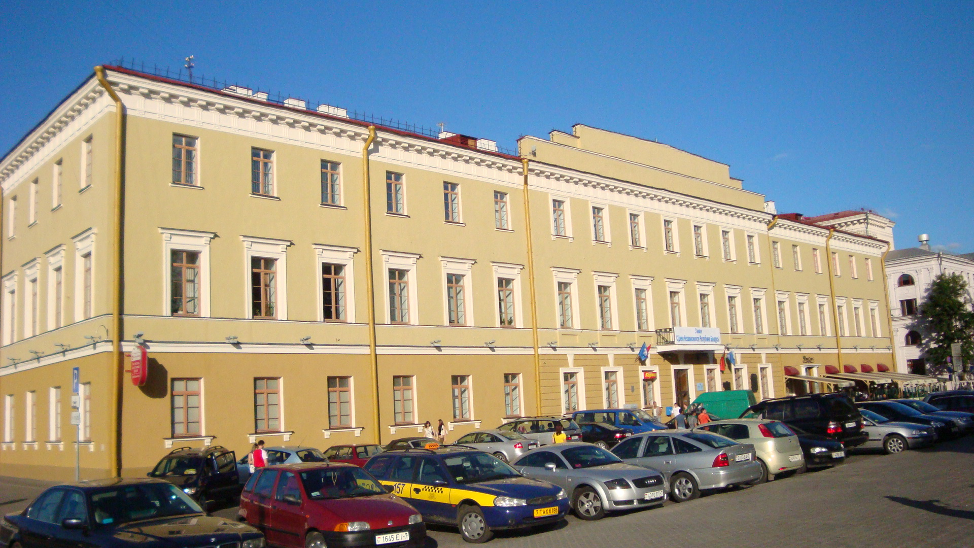 Ex-building of Minsk provincial gymnasium (built in 1803 AD)